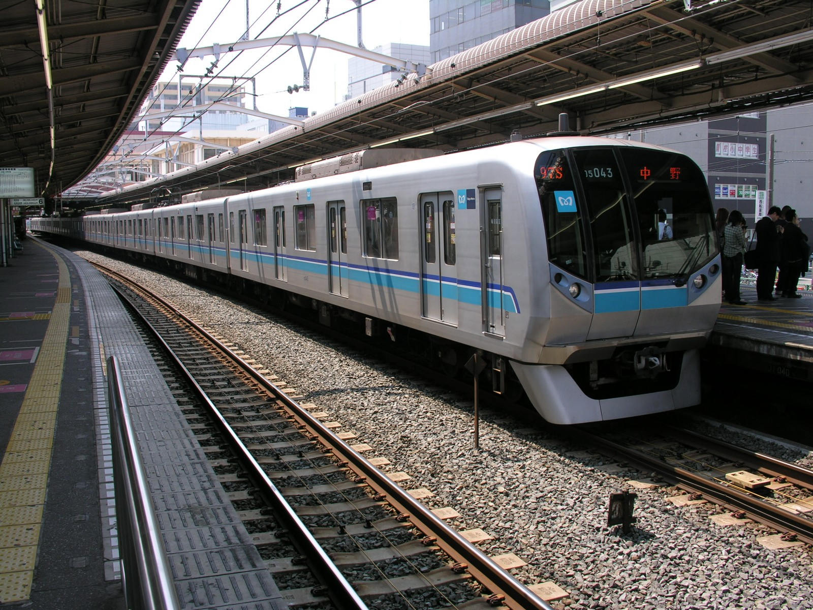 The train of Series 05N stopping at Nishi-funabashi Station (latest version)